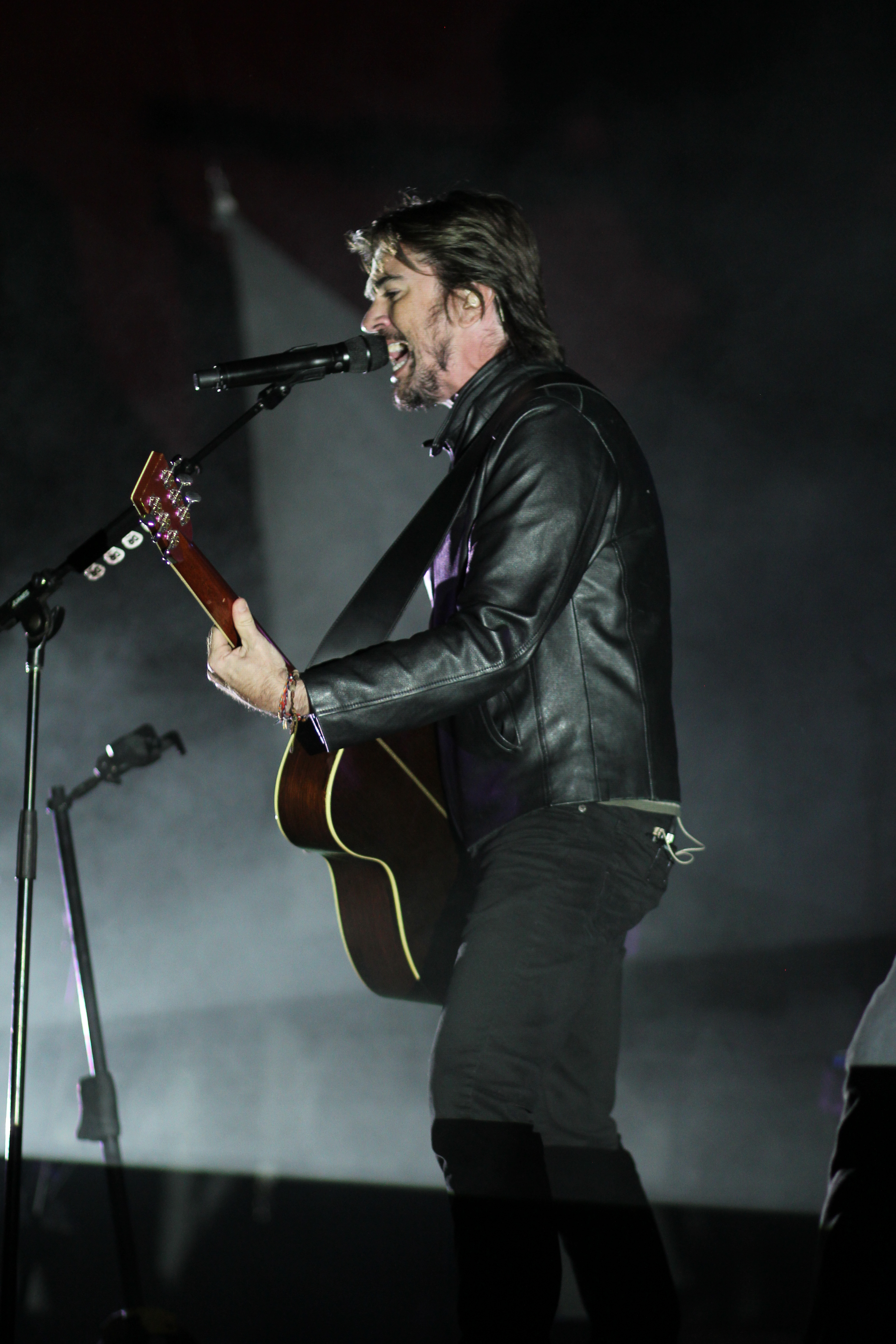 JUANES LIVE